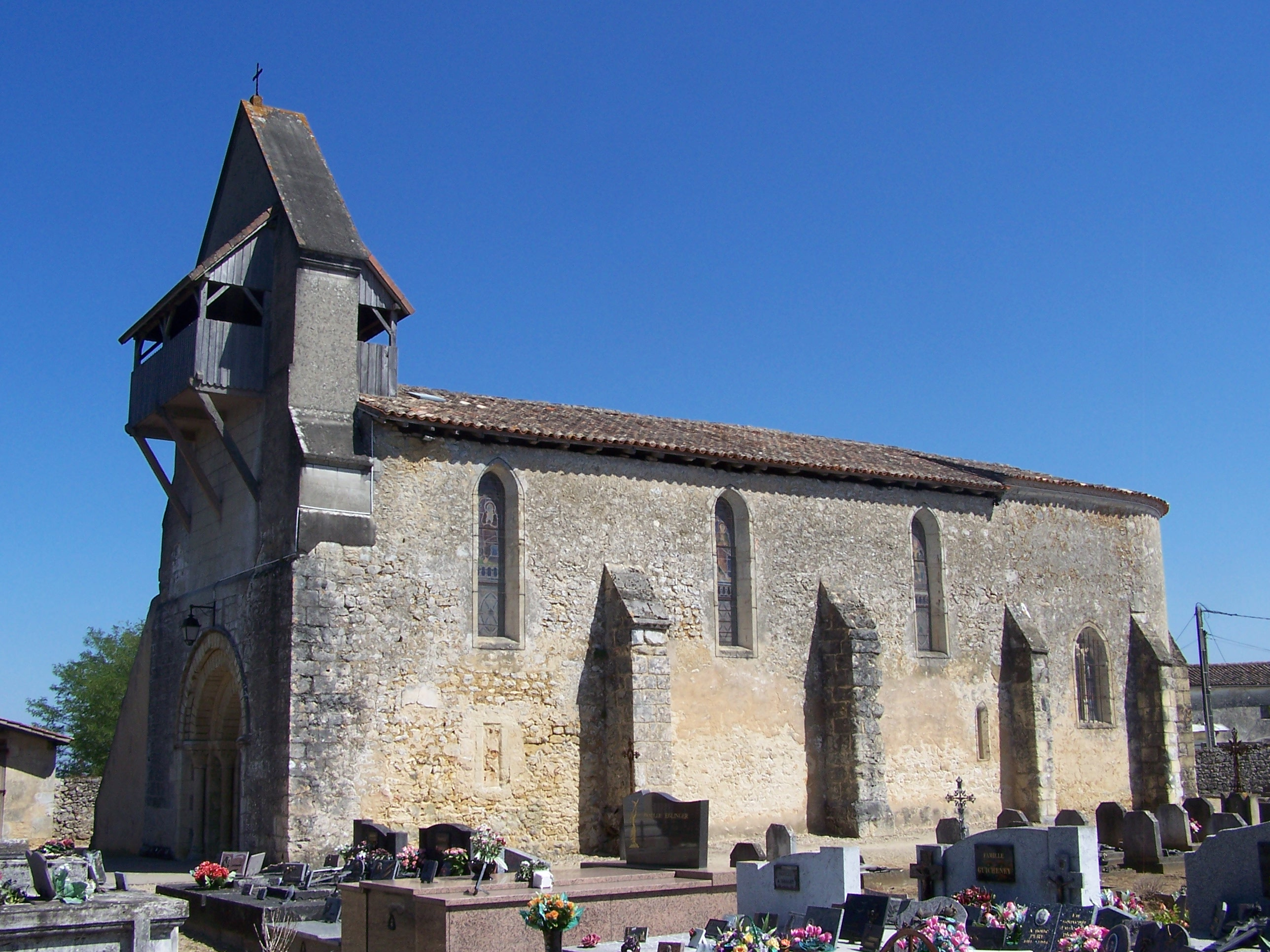 Church of Léogeats (Gironde, France)